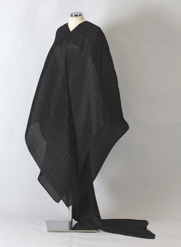 Pleated ensemble by Issey Miyake, 2004. Pelponnesian Folklore Foundation, 2009.6.780